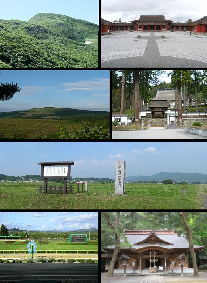 Oshu montage